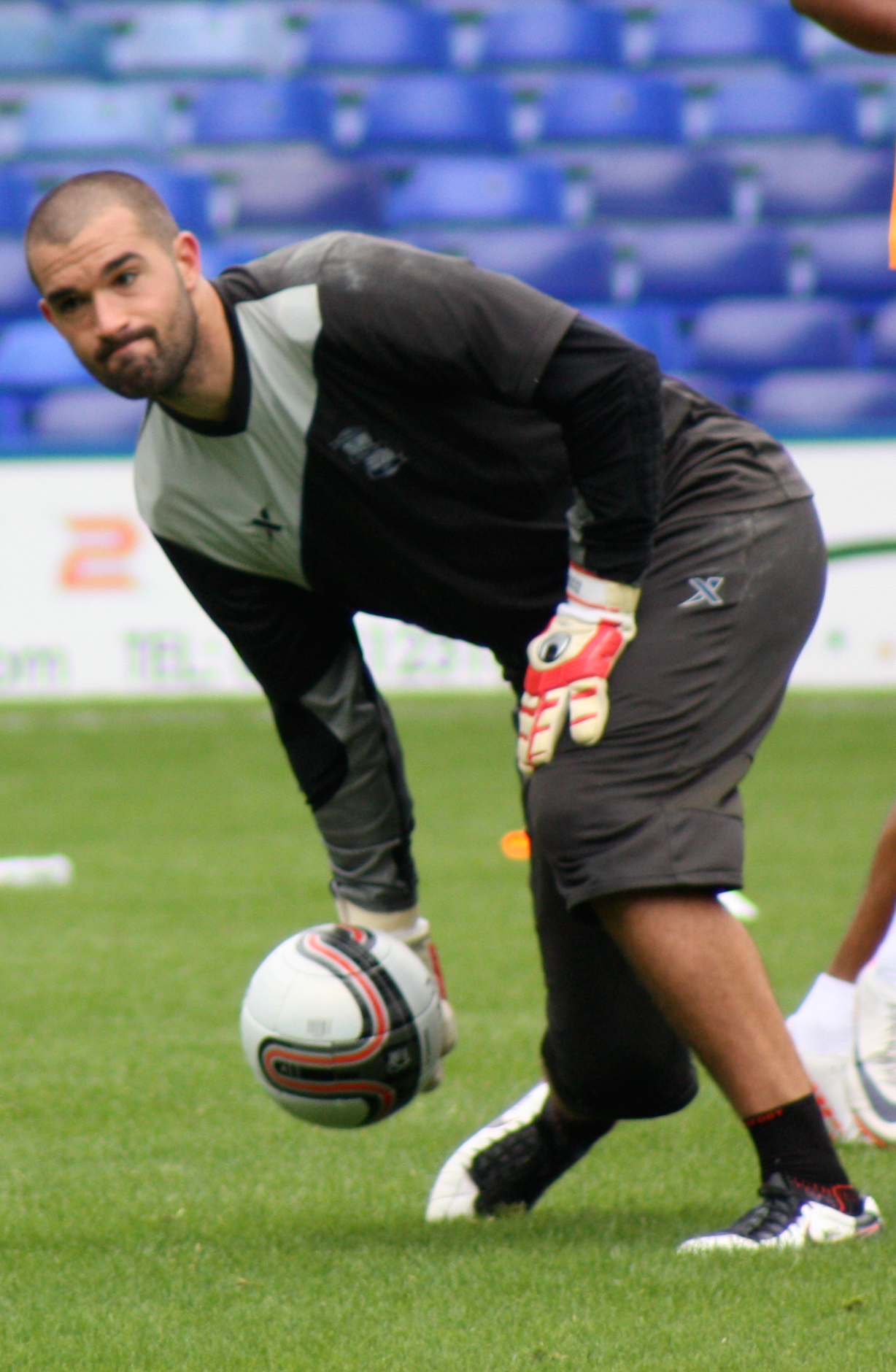 At St.Andrews' Stadium, Birmingham during the club open training session.